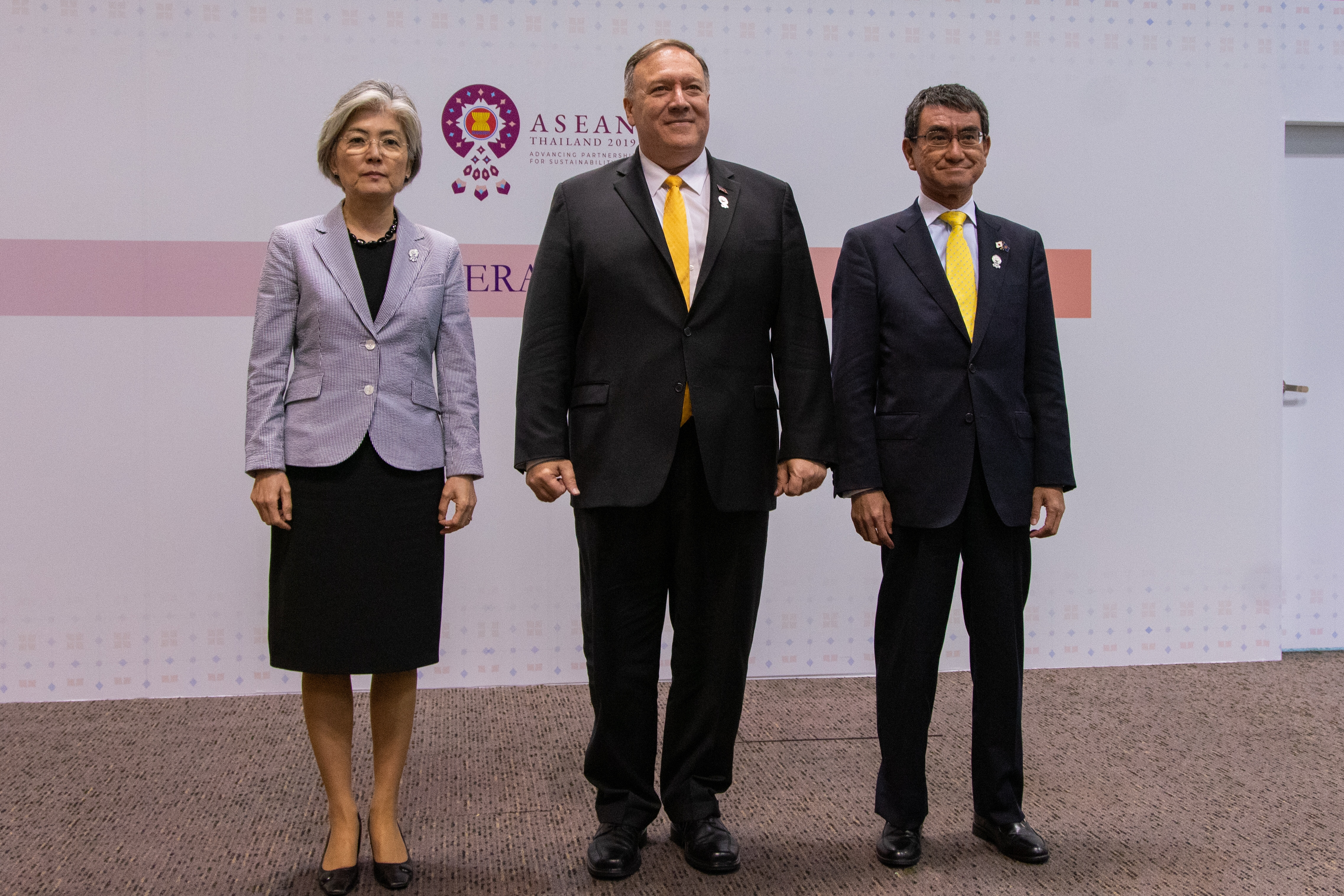 U.S. Secretary of State Michael R. Pompeo participates in the U.S.-Japan-Republic of Korea Trilateral meeting in Bangkok, Thailand, on August 2, 2019. [State Department Photo by Ron Przysucha/ Public Domain]